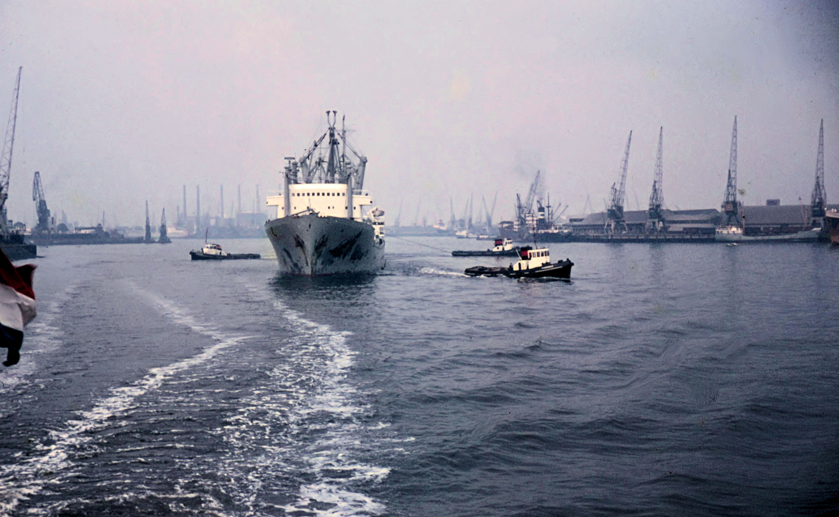 Rotterdam harbour 1962